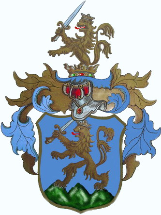 Coat of arms of the Kohary family (csábrághi és szitnyai herceg és gróf Koháry)